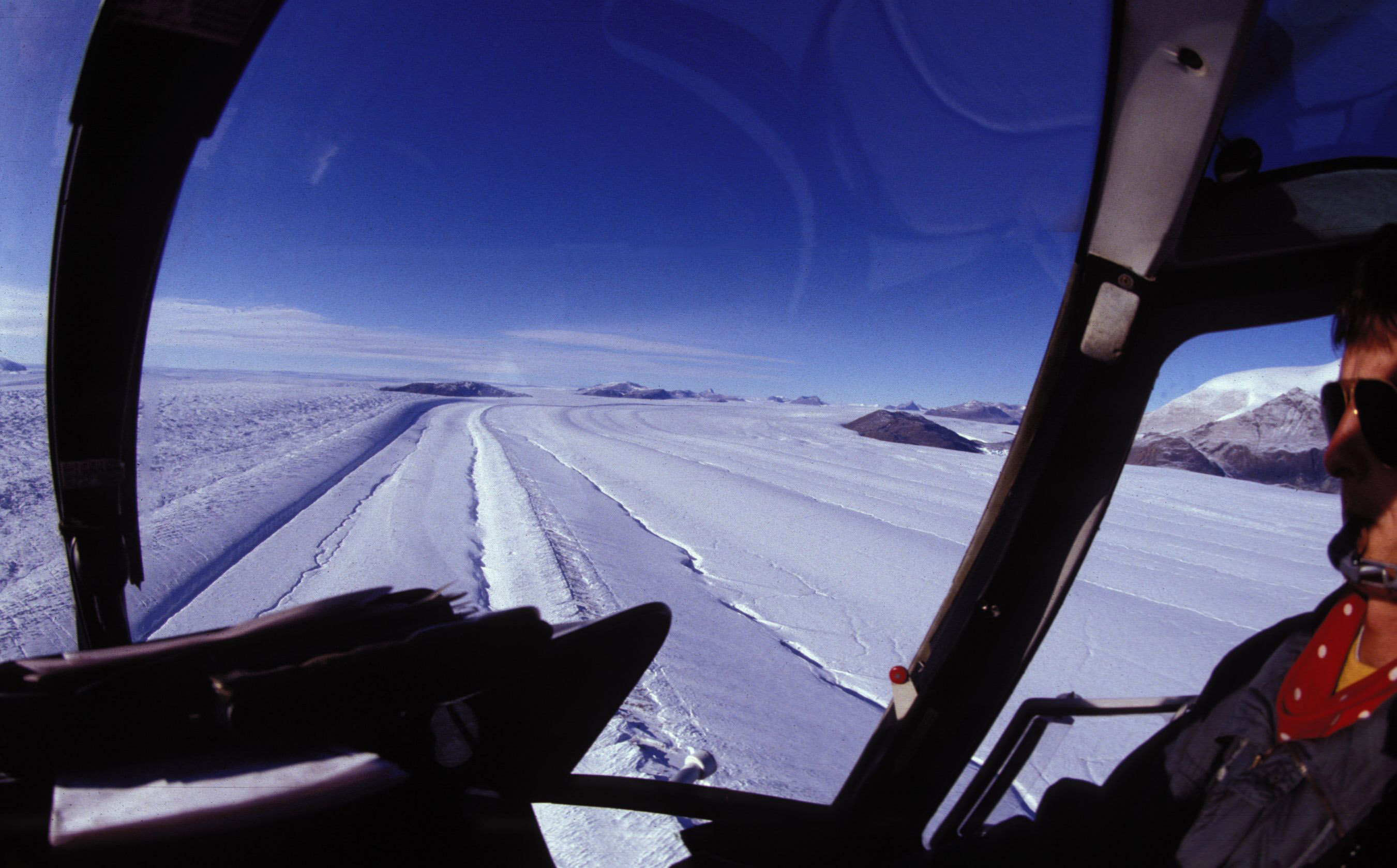 Daugaard-Jensen Glacier, feeding into Nordvestfjord/Scoresby Sund, Greenland (view from a helicopter flight about 5 miles inland from the calving line)